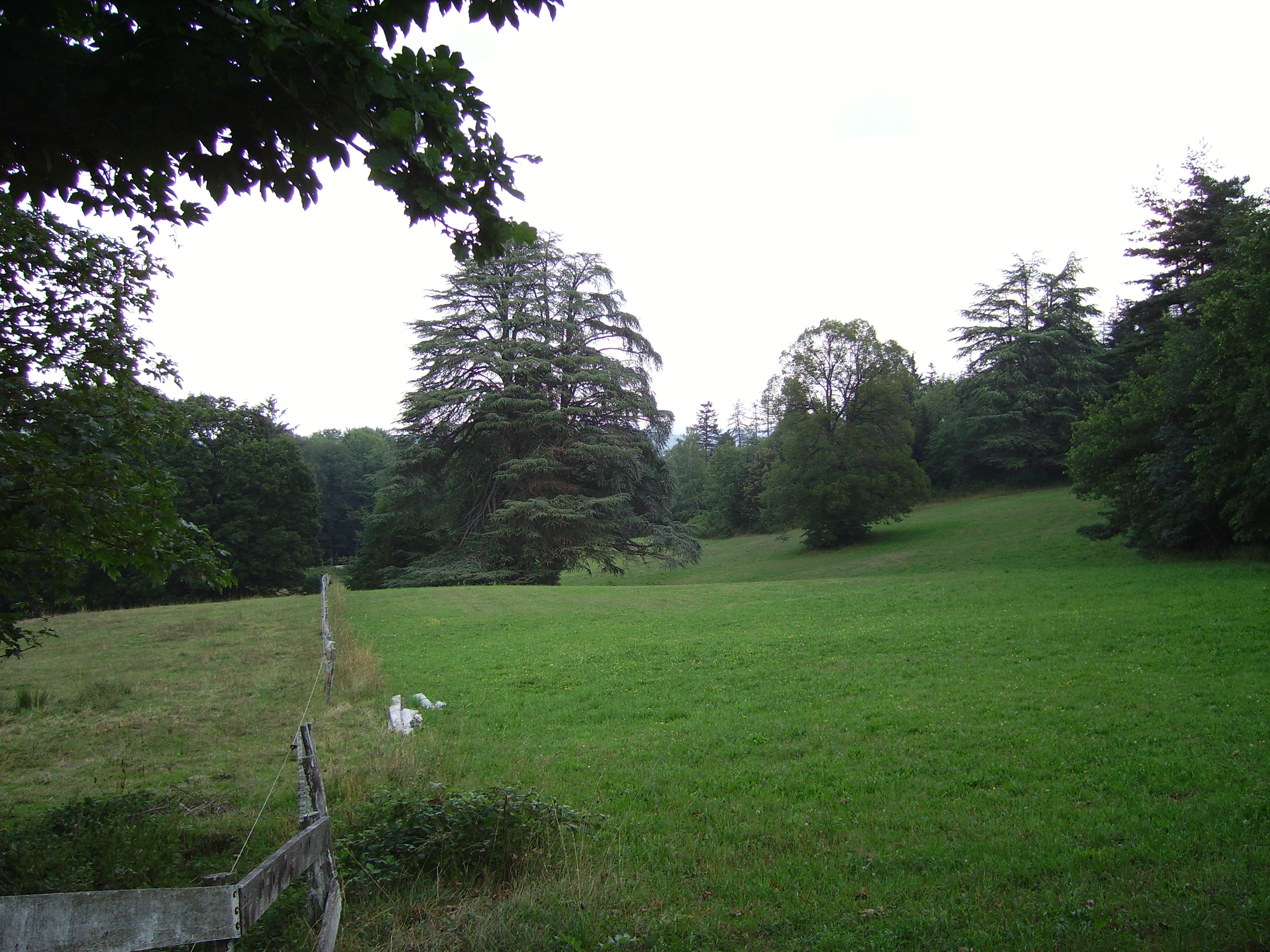 A view of Maubourg Castle's park